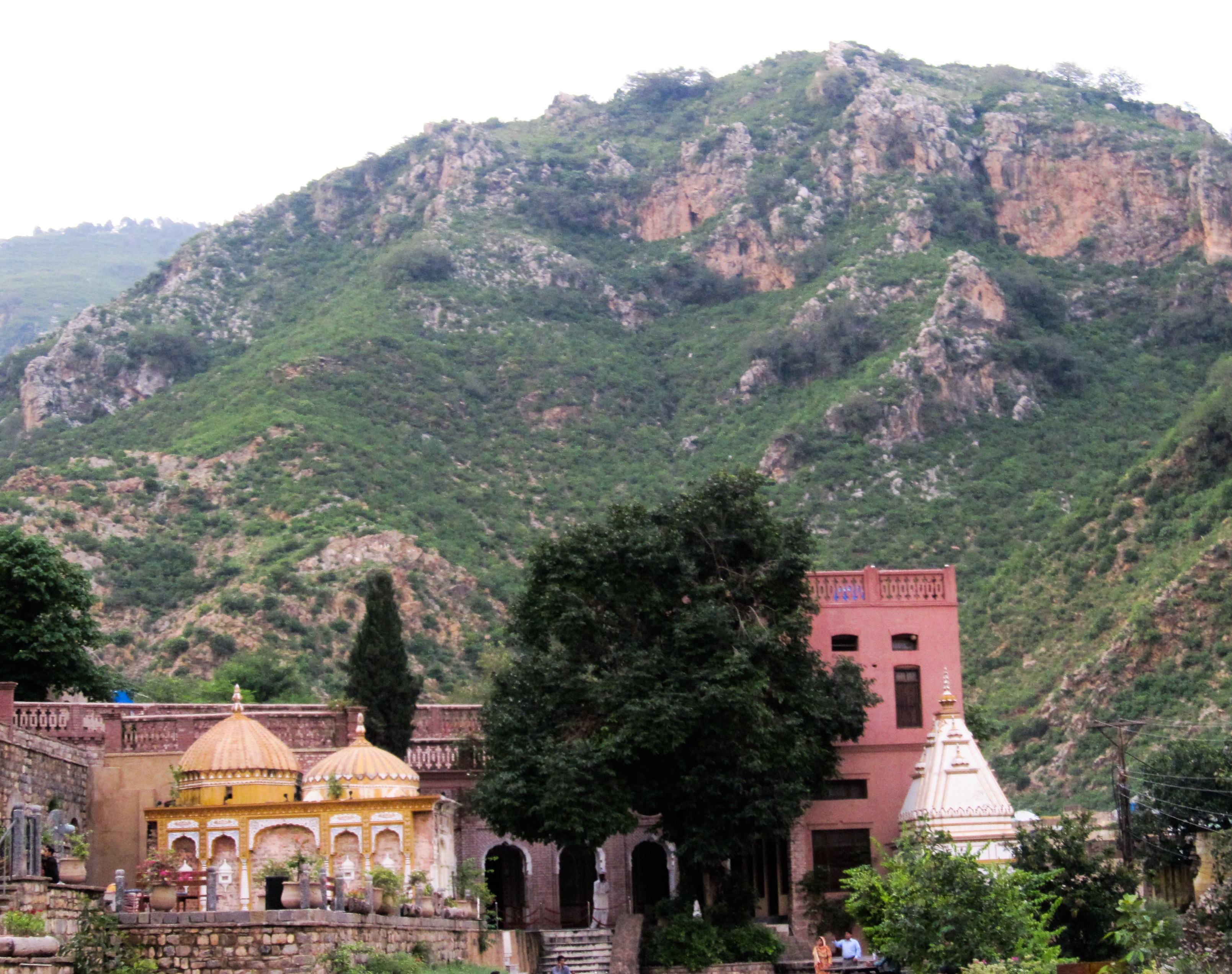 Saidpur Village 4